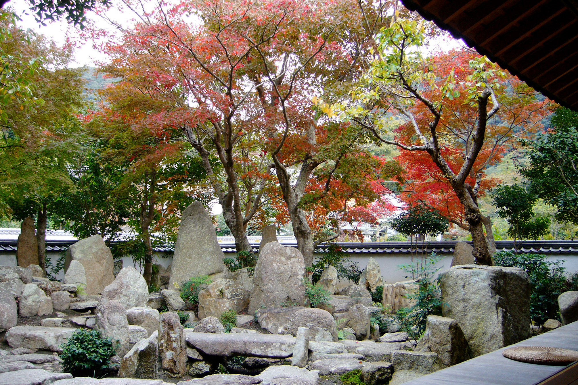 Anyoin, Kobe, Hyogo prefecture, Japan